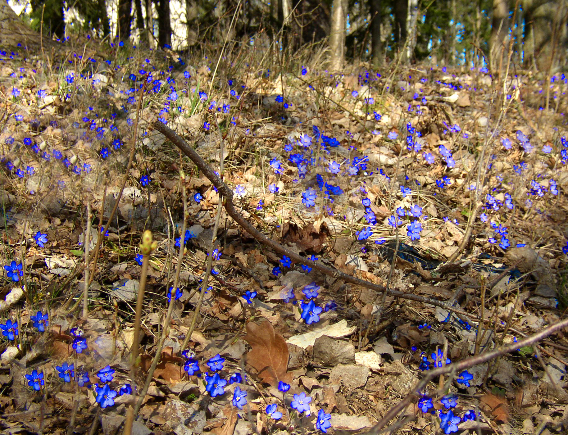 The bluesipps are blooming in big amounts in early springtime, Hepatica Nobilis in latin, A joy for your eye and very soon the white one, the white specie will follow !